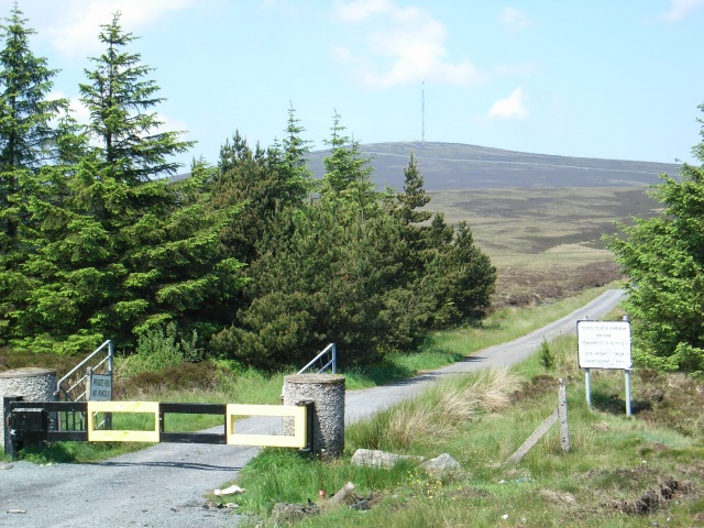 RTE Kippure Transmitting Station Entrance Gate The sign informs us that the site height is 750m (i.e. the summit of Kippure Mountain) and the mast height is 110m.